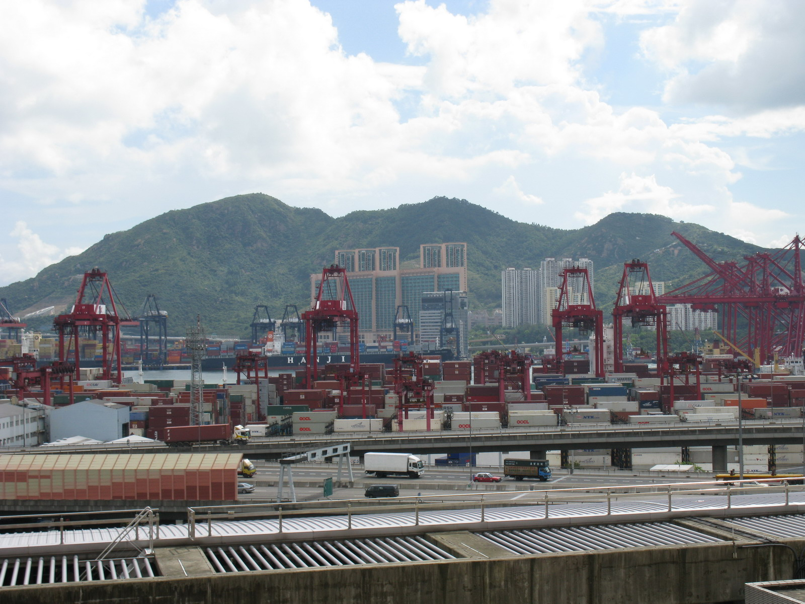 Kwai Tsing Container Terminals & Tsing Yi Peak